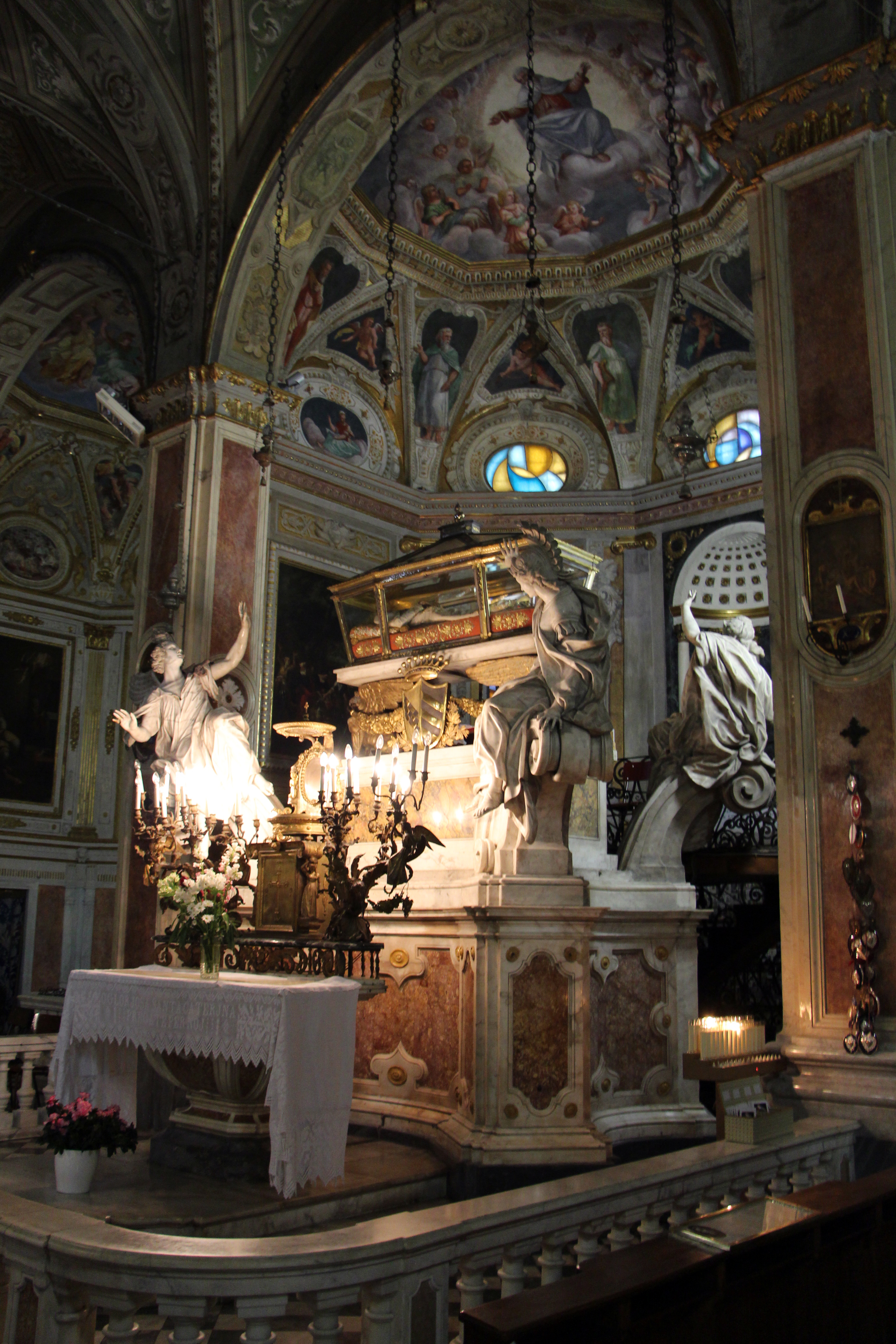 Mausoleum of Saint Catherine of Genoa